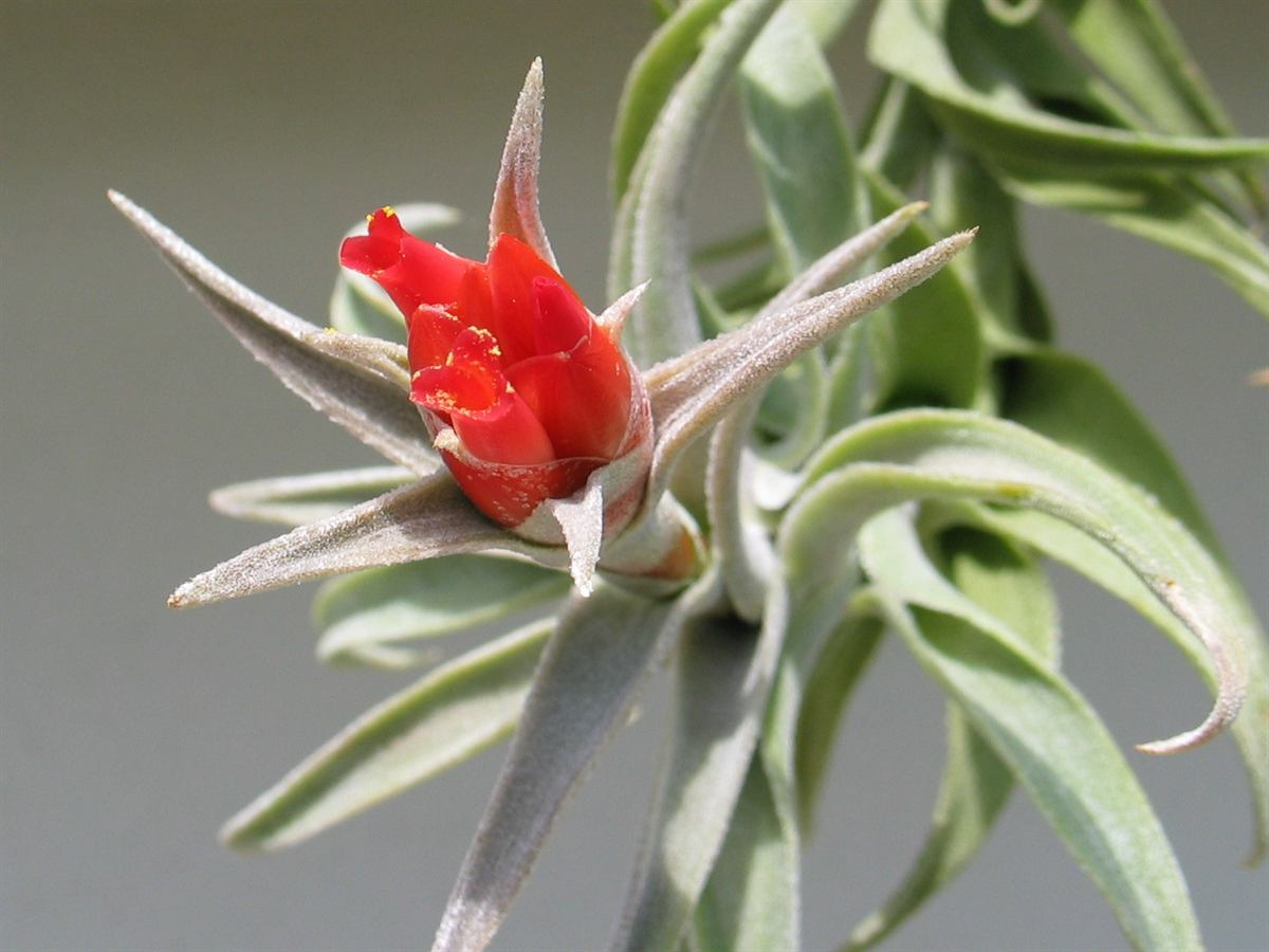 Tillandsia edithiae flowers